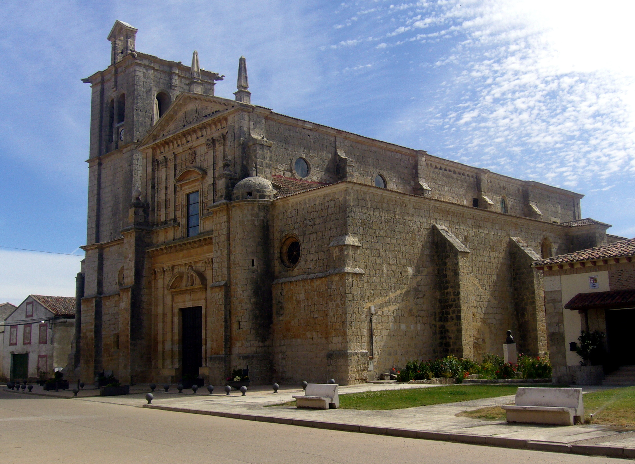 Church of Nuestra Señora de la Asunción, Palencia, Spain.